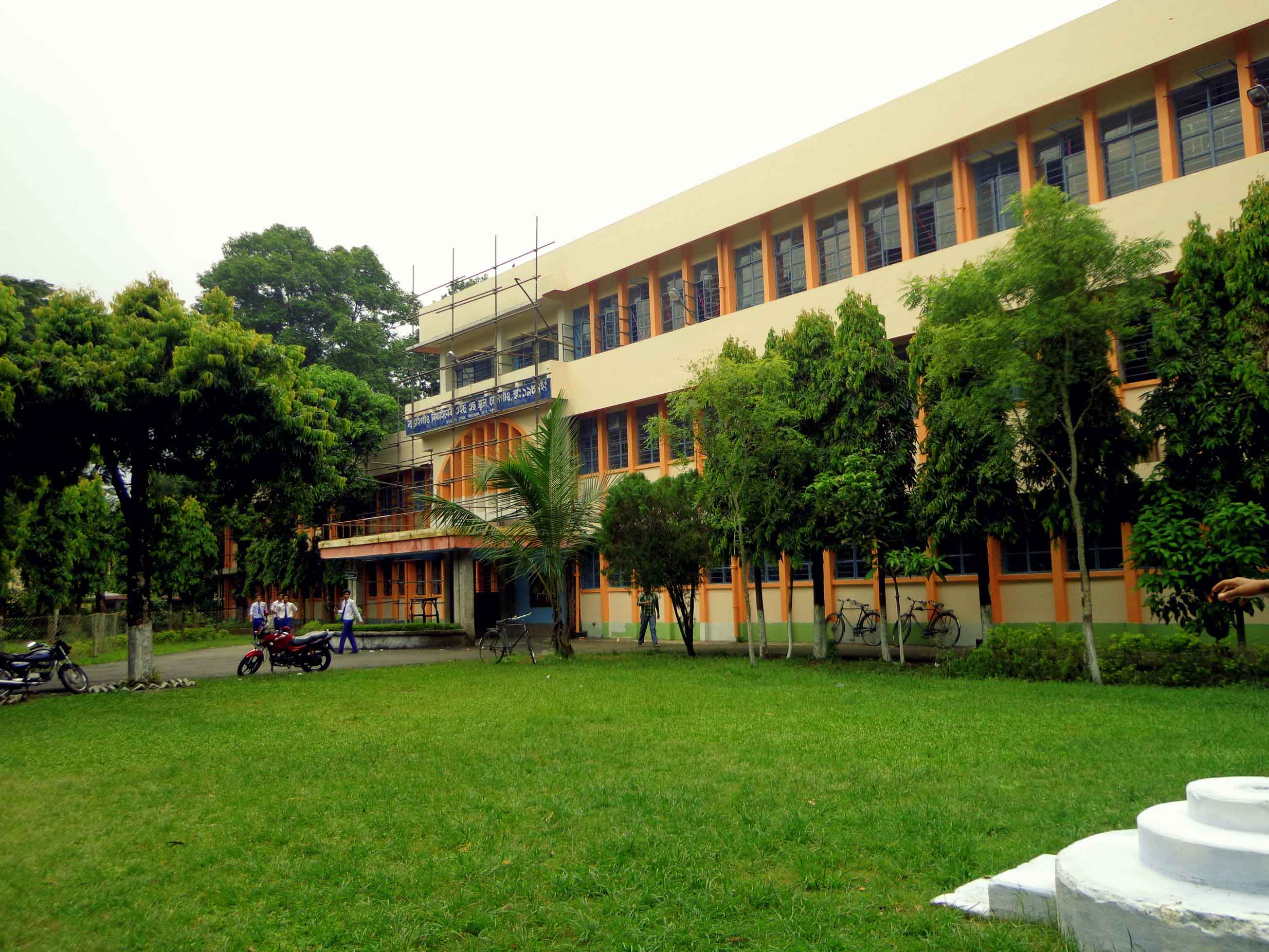 Front view from right side of BGR HS School, Dhaligaon